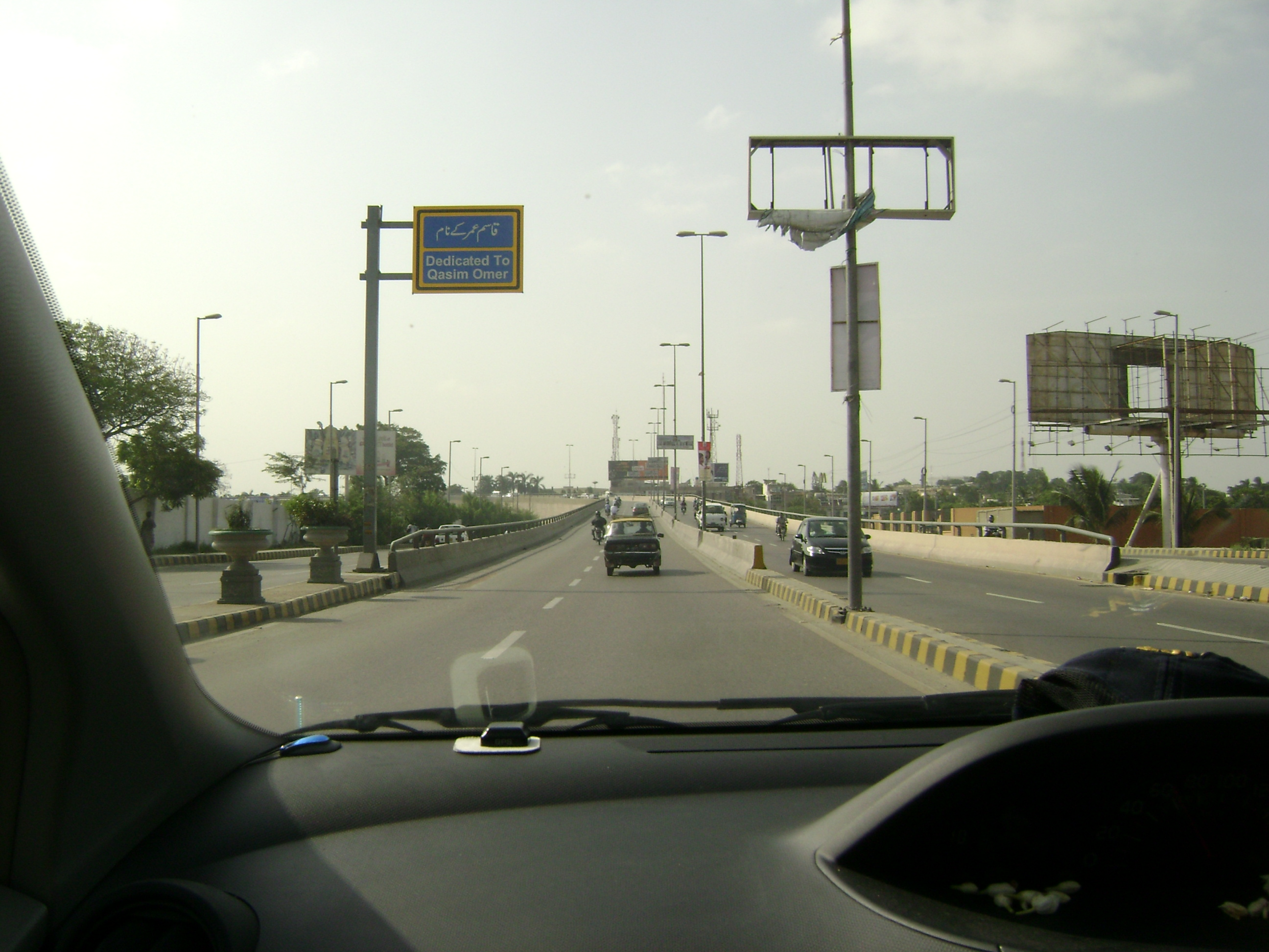 View of Stadium road flyover, Karachi